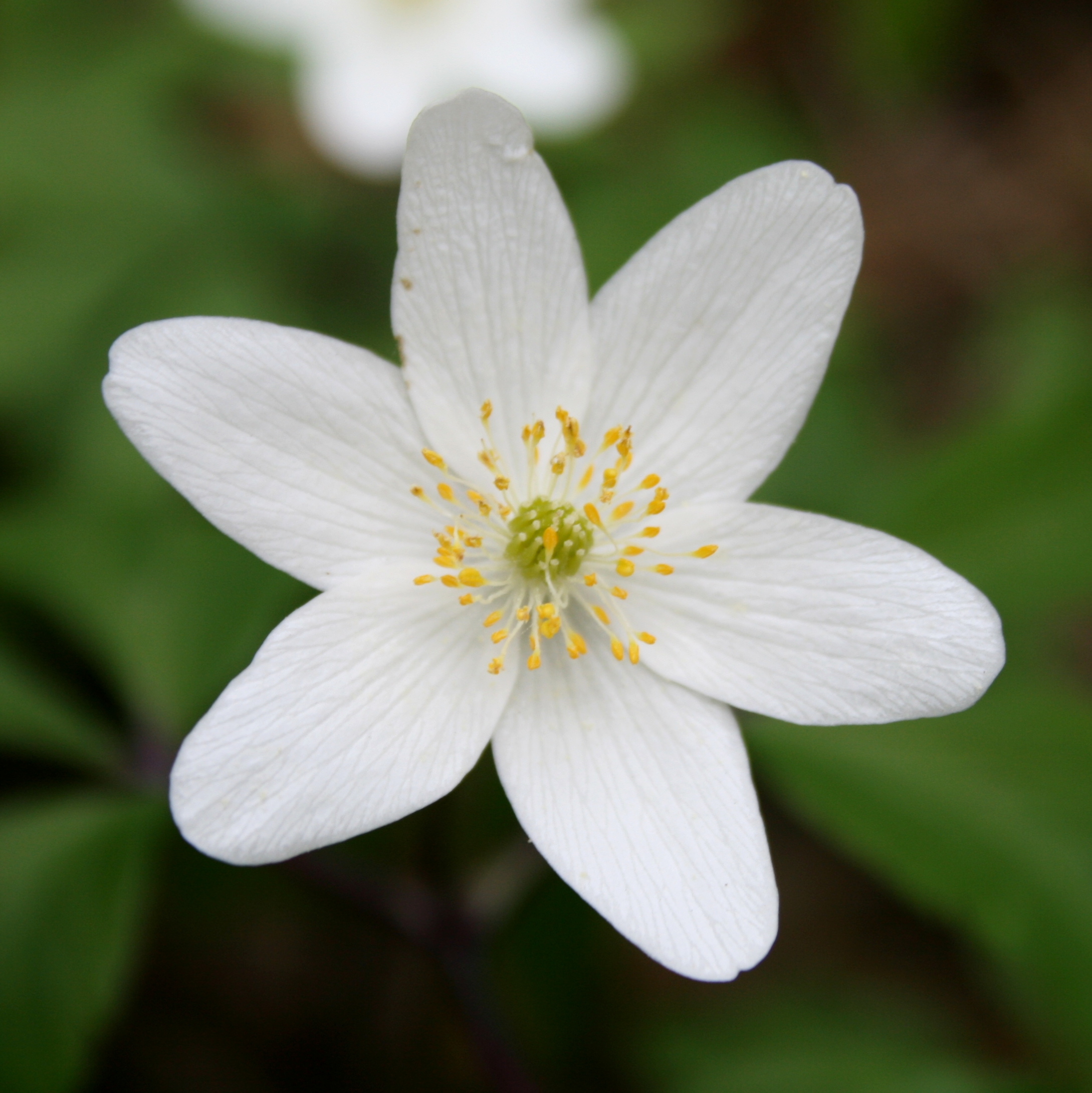 Anemone nemorosa, flower